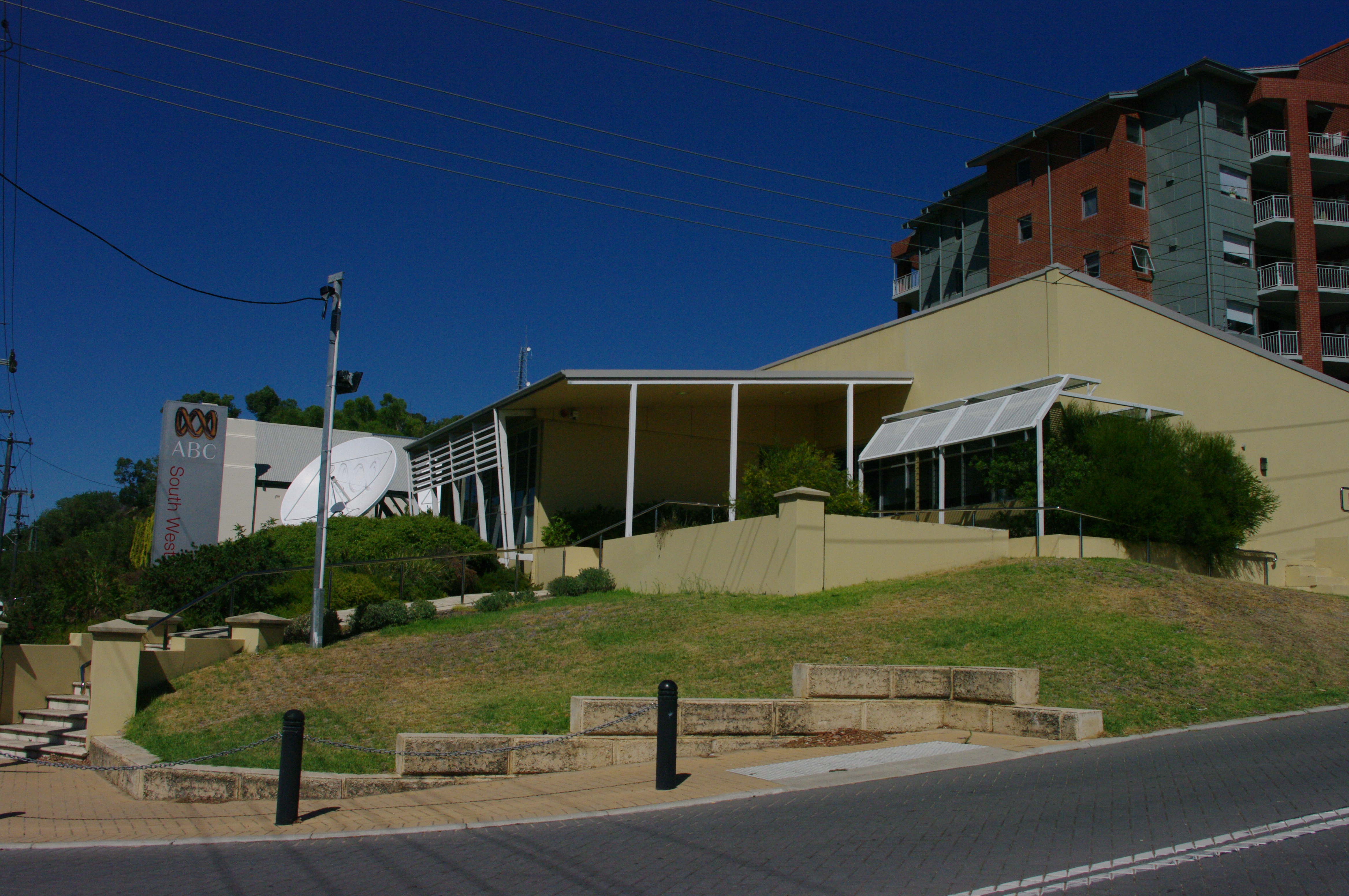 ABC Southwest, Bunbury Western Australia Street view on Wittenoom street